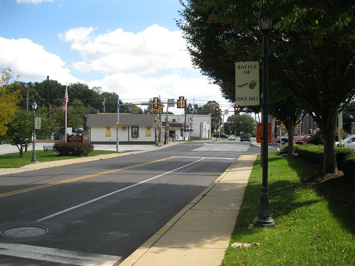 Jenkintown Road looking south to SEPTA-Warminster crossing in Ardsley, PA. Battle of Edge Hill sign at right.